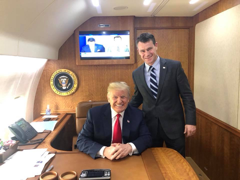 Great to join President Donald J. Trump in Elkhart last night. Thanks for the ride on Air Force One!